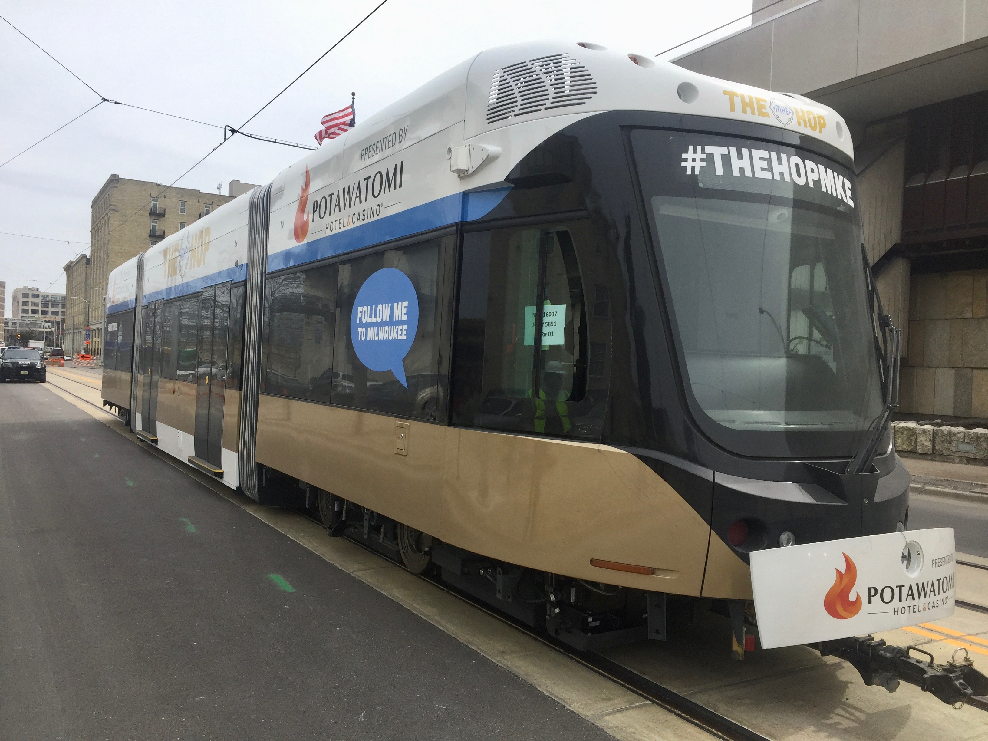 The HOP MKE Streetcar first moment on the tracks in Milwaukee